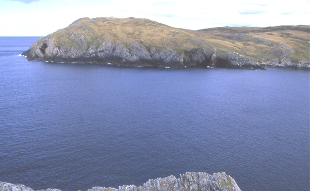 Easter Keolka. The headland is Easter Keolka, seen from Wester Keolka on the other shore of Sand Voe. The foreground rocks are only just inside the same square - I used a GPS to make sure I was in it!